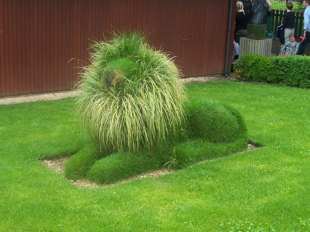 Longleat : Lion Topiary A topiary of a lion near the hedge maze at Longleat.